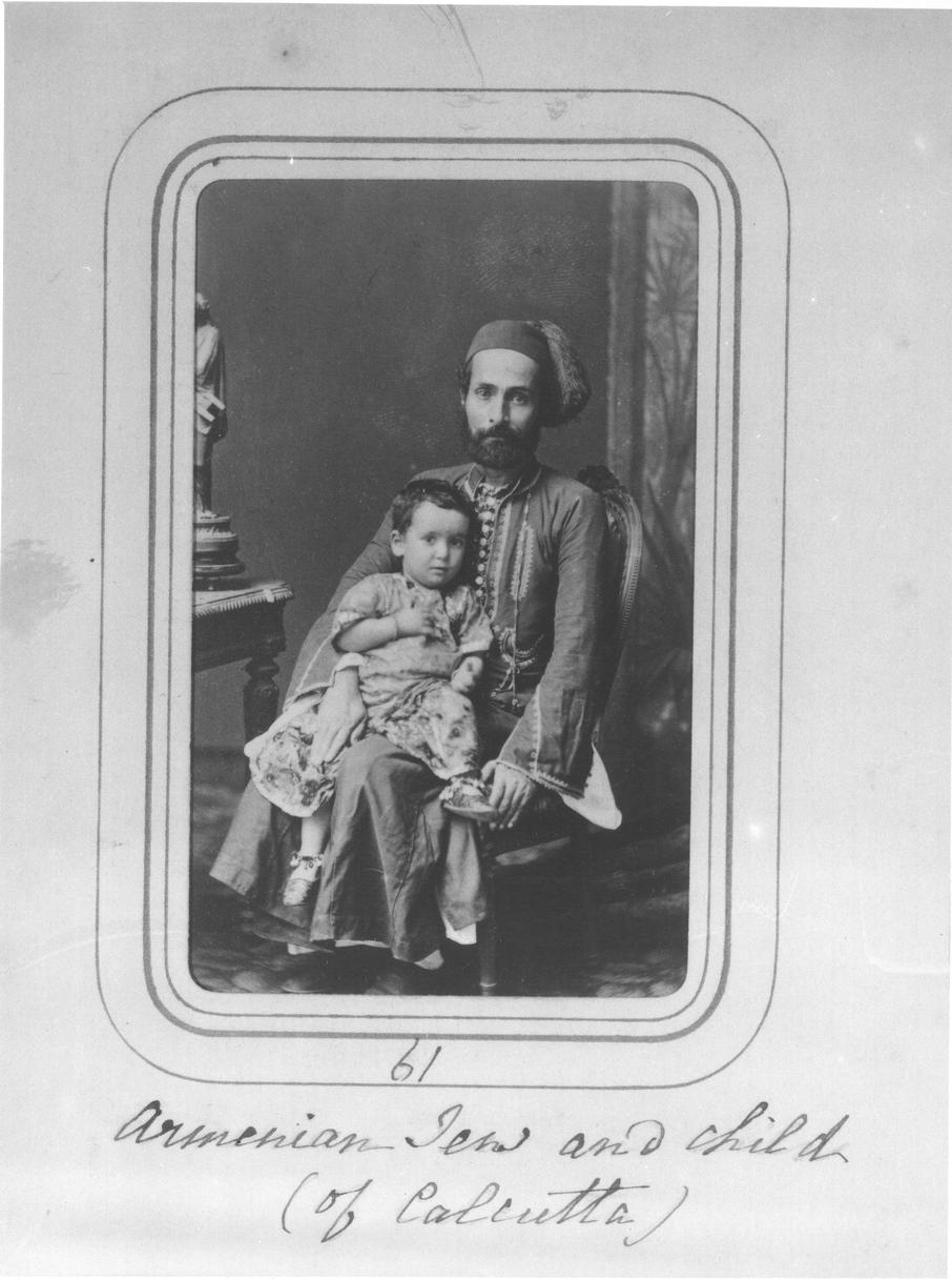 Armenian Jew and child (of Calcutta)